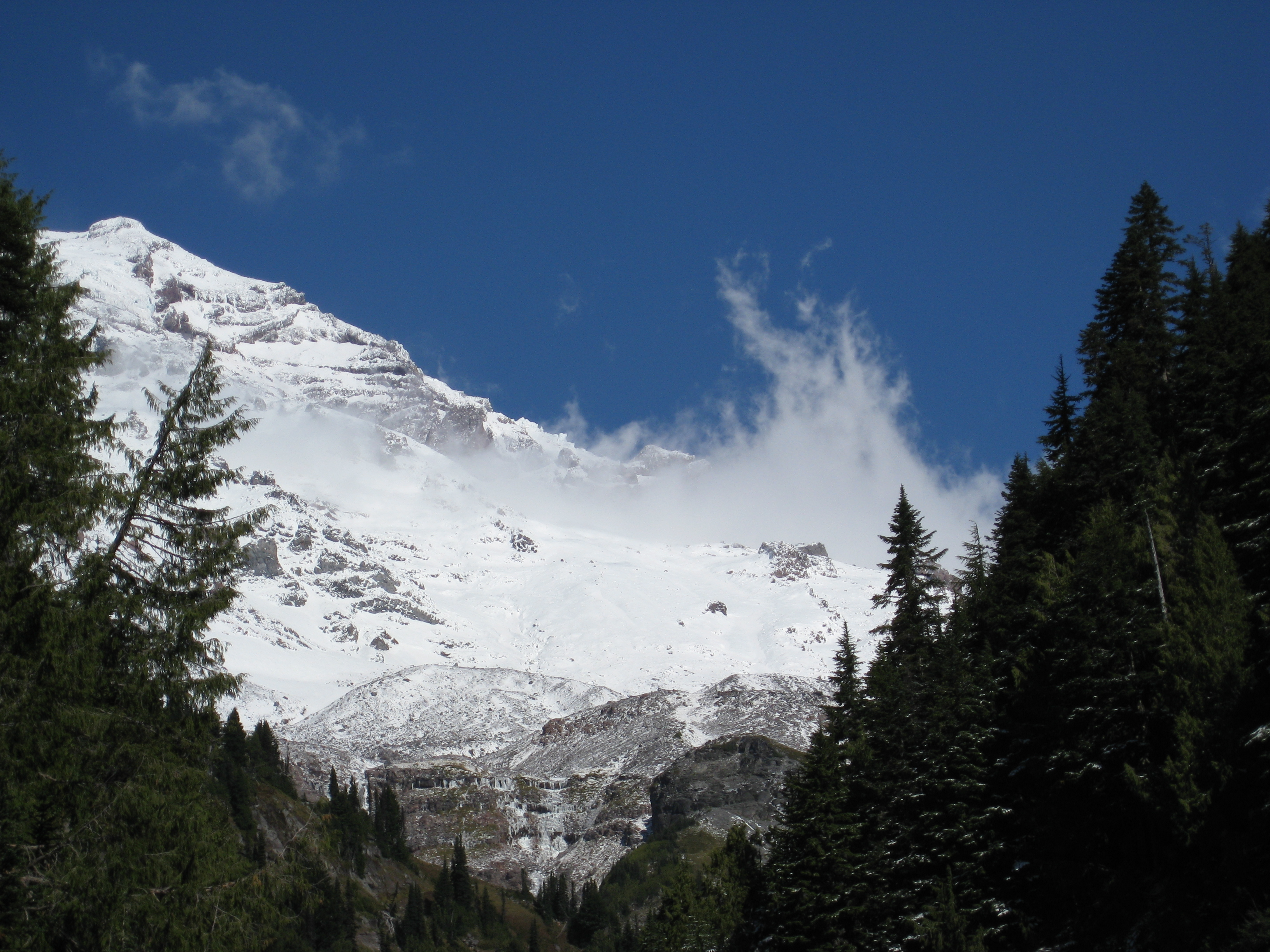 Mount Rainier with spindrift - near Van Trump Park